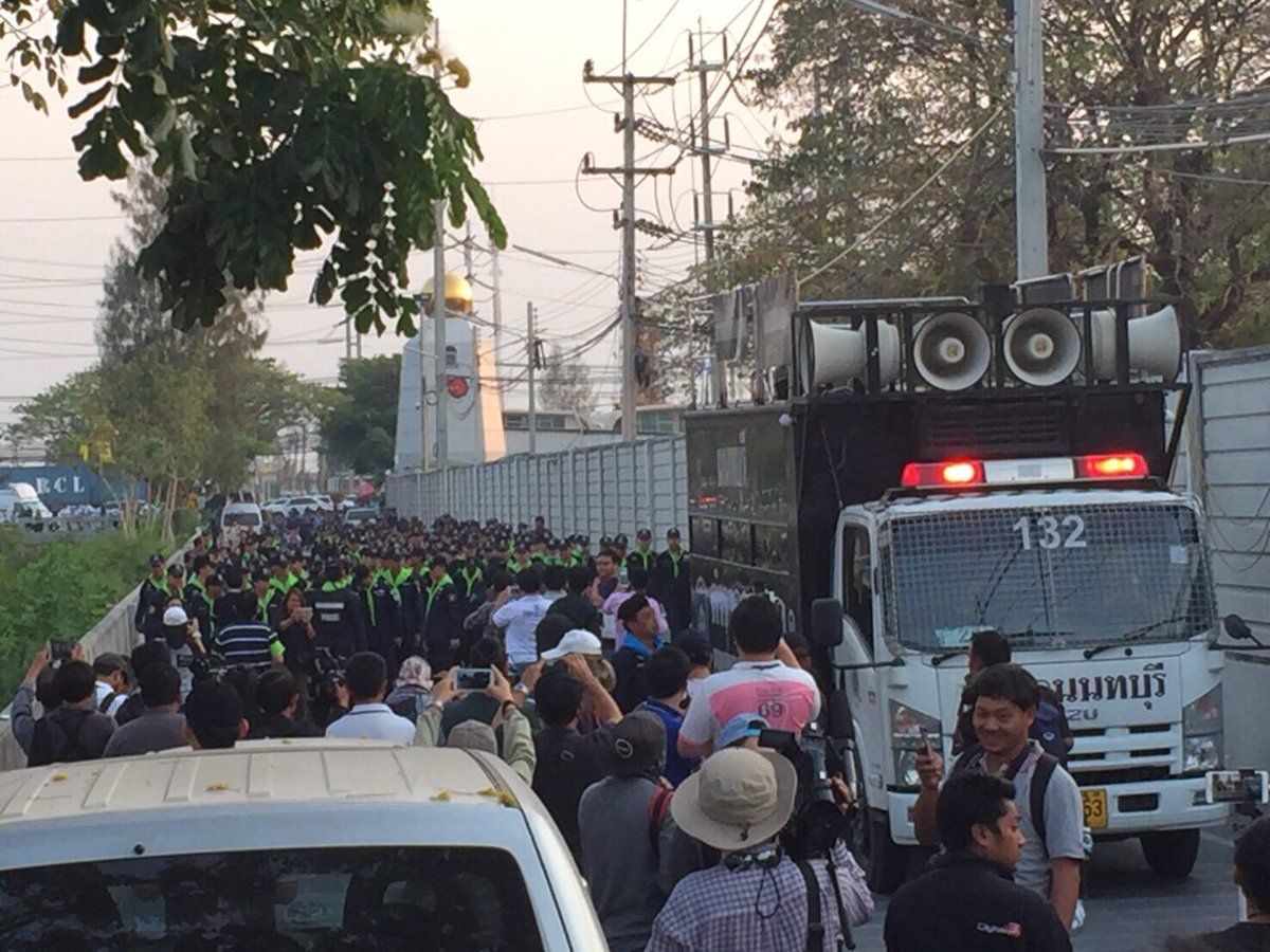 DSI officers and police wait outside temple walls to enter